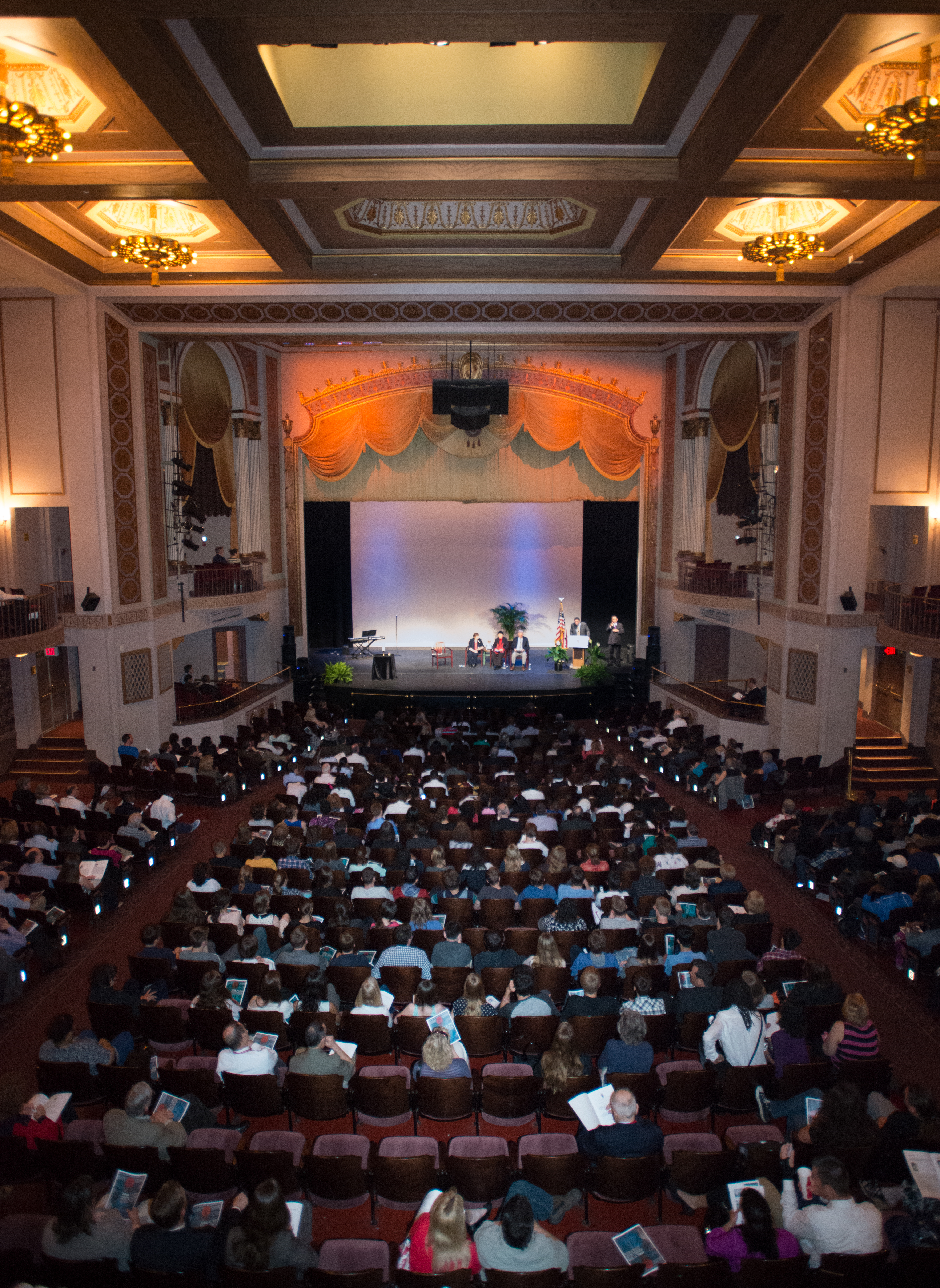 The 2013 Federal Inter-Agency Holocaust Remembrance Day, at the Lincoln Theater, on Wednesday, April 17, 2013, in Washington, D.C. The moderator is United States Holocaust Memorial Museum Division of the Senior Historian Director Peter Black, Ph.D., at podium or seated on left, and the guest speakers, left to right, are Theresienstadt Concentration Camp Czech Jewish Holocaust Survivor Ela Stein-Weissberger, and German Jewish Holocaust Survivor Inge Auerbacher; and Dachau Concentration Camp Liberator Jimmy Gentry. Since the 1979 President’s Commission on the Holocaust, an annual proclamation signed by the President of the United States recognizes the importance of remembering the atrocities of the Holocaust that should never be forgotten or be ignored. USDA Photo by Lance Cheung.